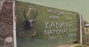 Reserved Natural Park in Bauchi Nigeria